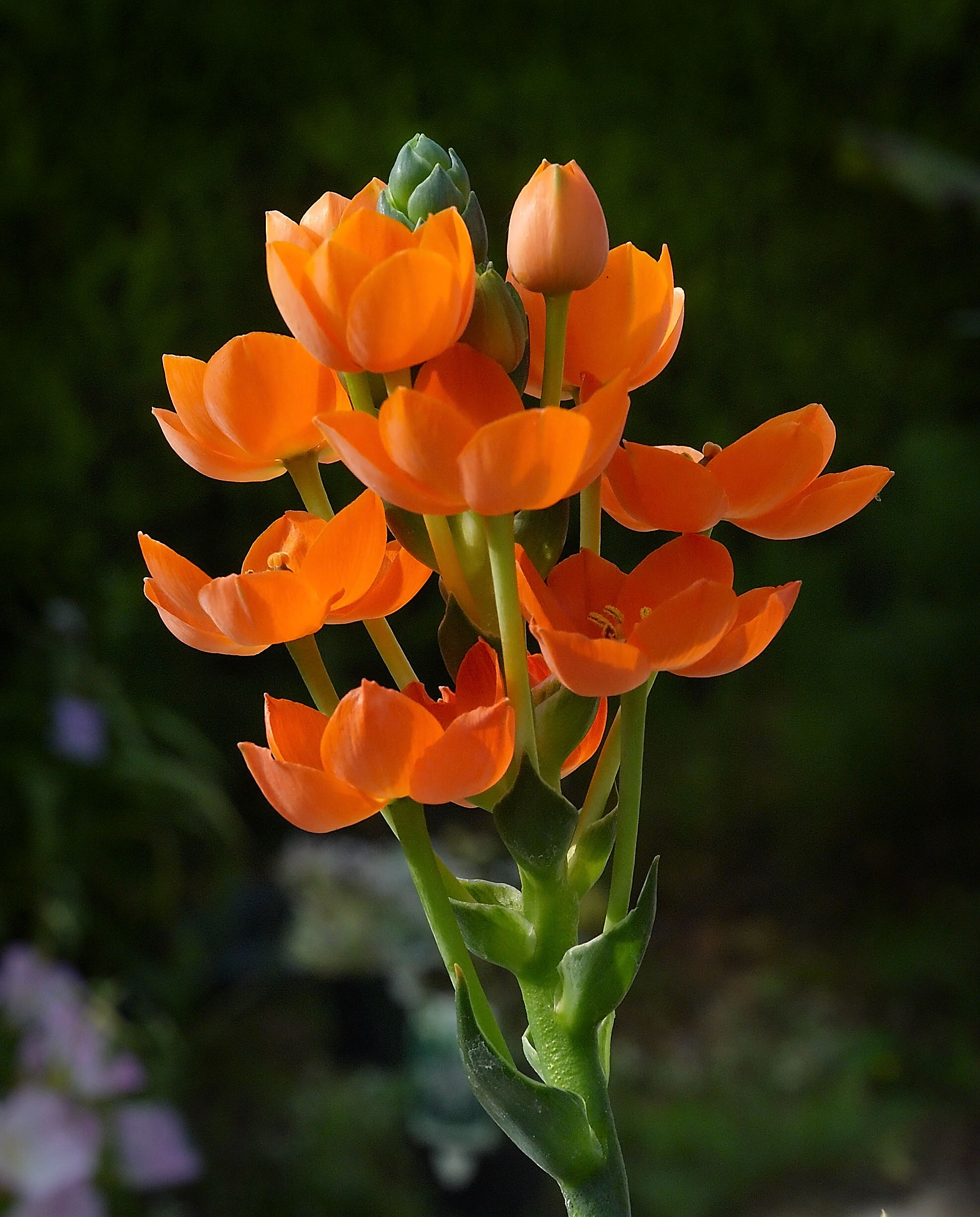 Sun Star